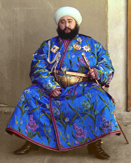 A picture of Alim Khan (1880-1944), Emir of Bukhara, taken in 1911. This is one of the earliest color photographs in existence and was originally taken by Sergei Mikhailovich Prokudin-Gorskii as part of his work to document the Russian Empire. It was taken using three black-and-white exposures, with red, green and blue filters respectively, long before color photographic printing existed. The three resulting images were projected using color filters to create a color projection. More recently, the Library of Congress has scanned Prokudin-Gorskii's work and contracted with other firms to produce high-resolution color images from the black and white scans.